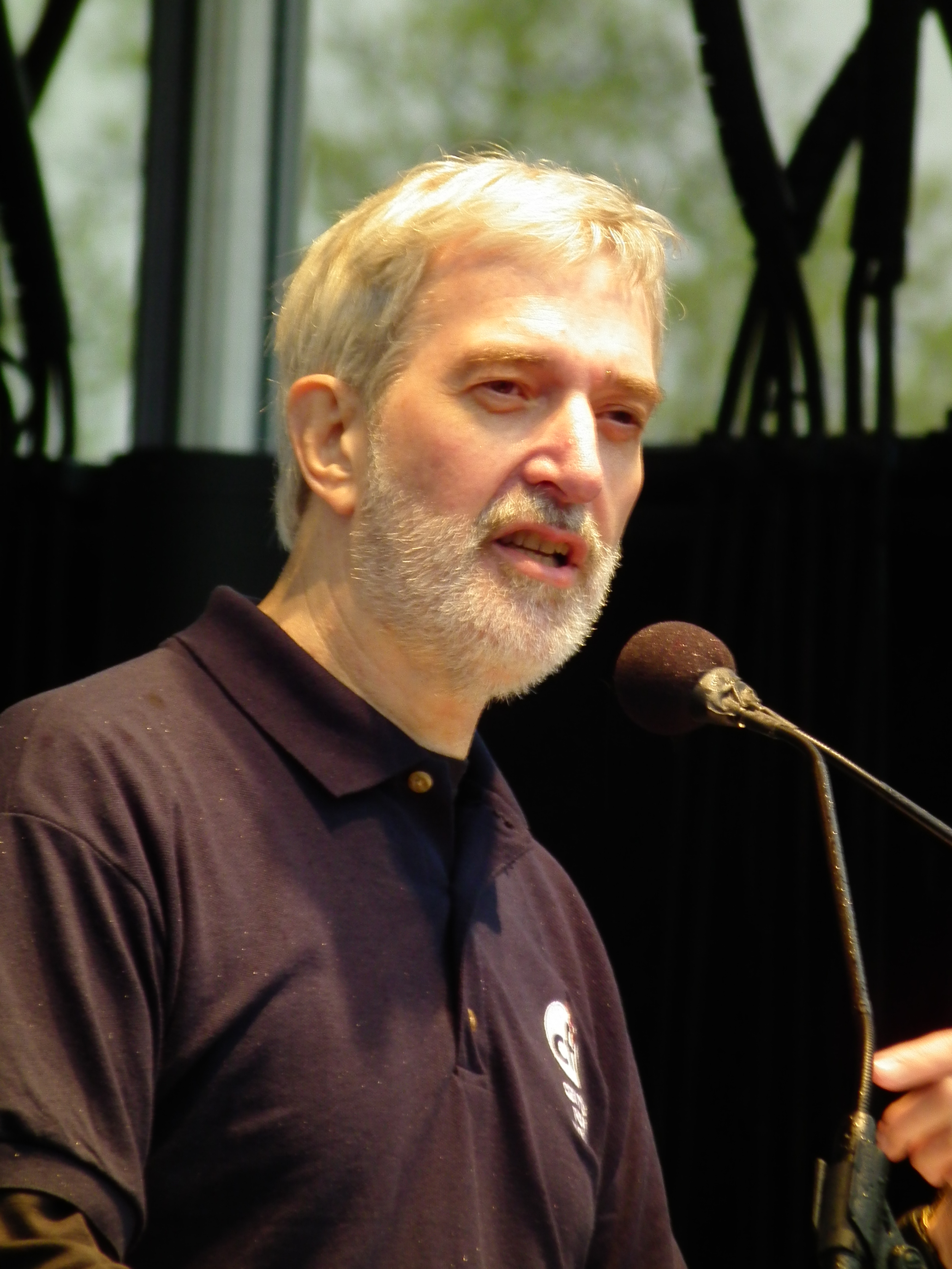 Ron Lindsay speaking at the Reason Rally in 2012 Bioethicist; Lawyer; President, Chief Executive Officer, and Senior Research Fellow at the Center for Inquiry.